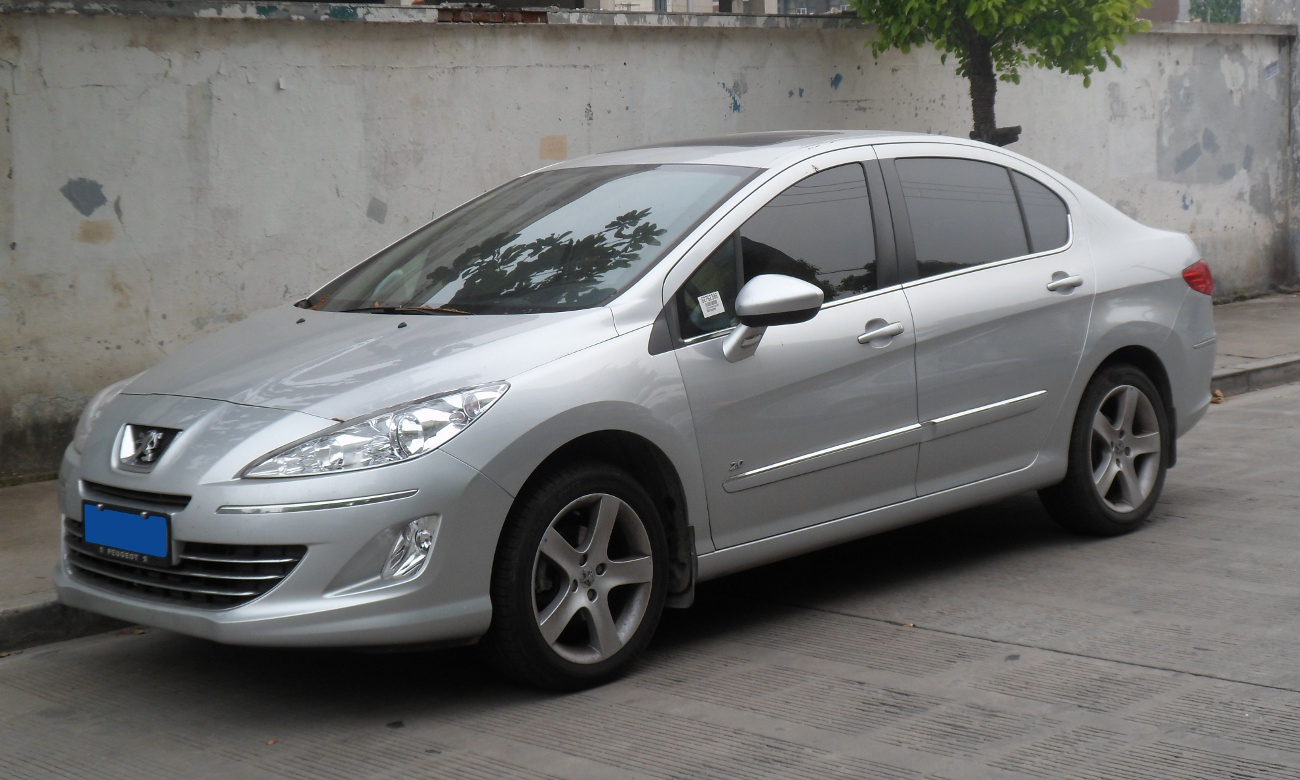 Peugeot 408 photographed in Shanghai, China.